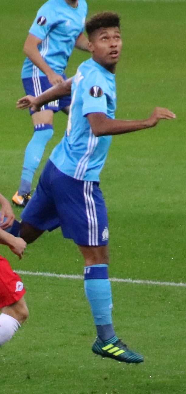 UEFA Euroleague group stage matchday 2